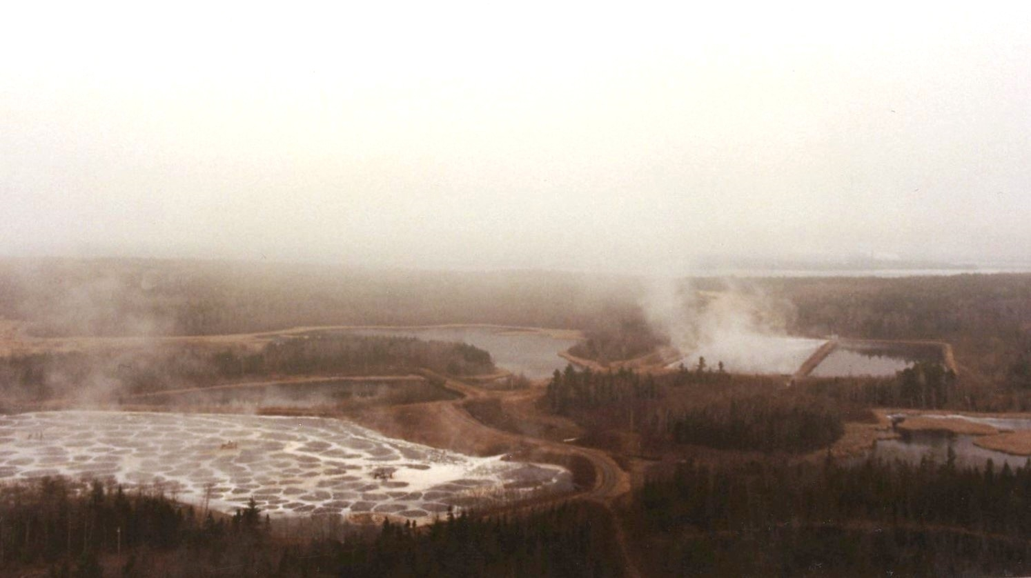 Aeration ponds, Boat Harbour effluent treatment ponds, Abercrombie Point, Nova Scotia (1990s)